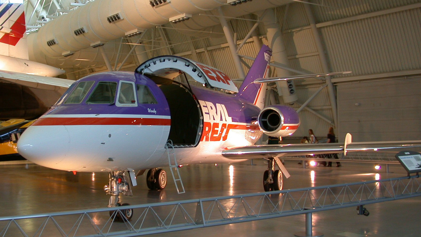 Dassault Falcon 20C, Smithsonian NASM, Washington DC